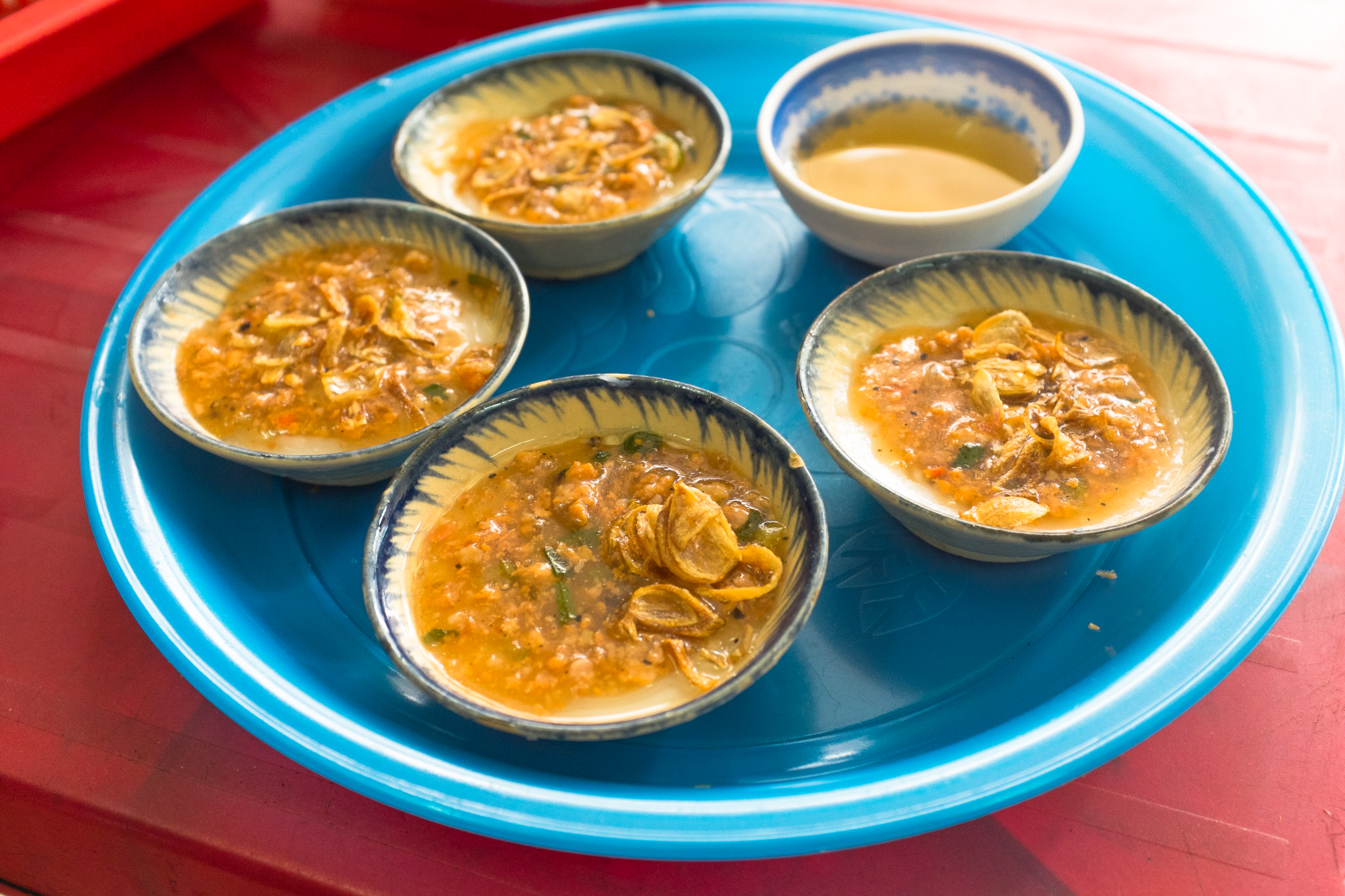 Vietnamese rice cake served with fish sauce.